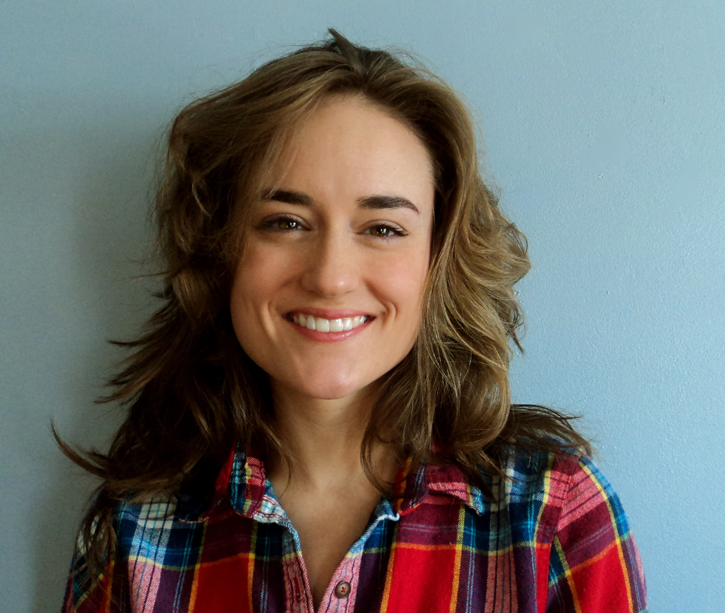 Amber Cowan Headshot